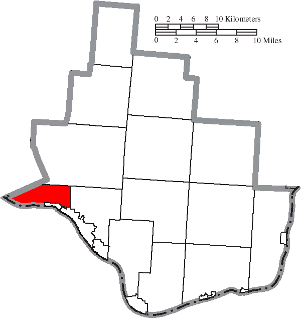 Map of the municipal and township boundaries of Lawrence County, Ohio, United States, as of the 2000 census, with the location of Hamilton Township highlighted. Township borders are shown only in unincorporated areas in order to differentiate incorporated and unincorporated areas more clearly.